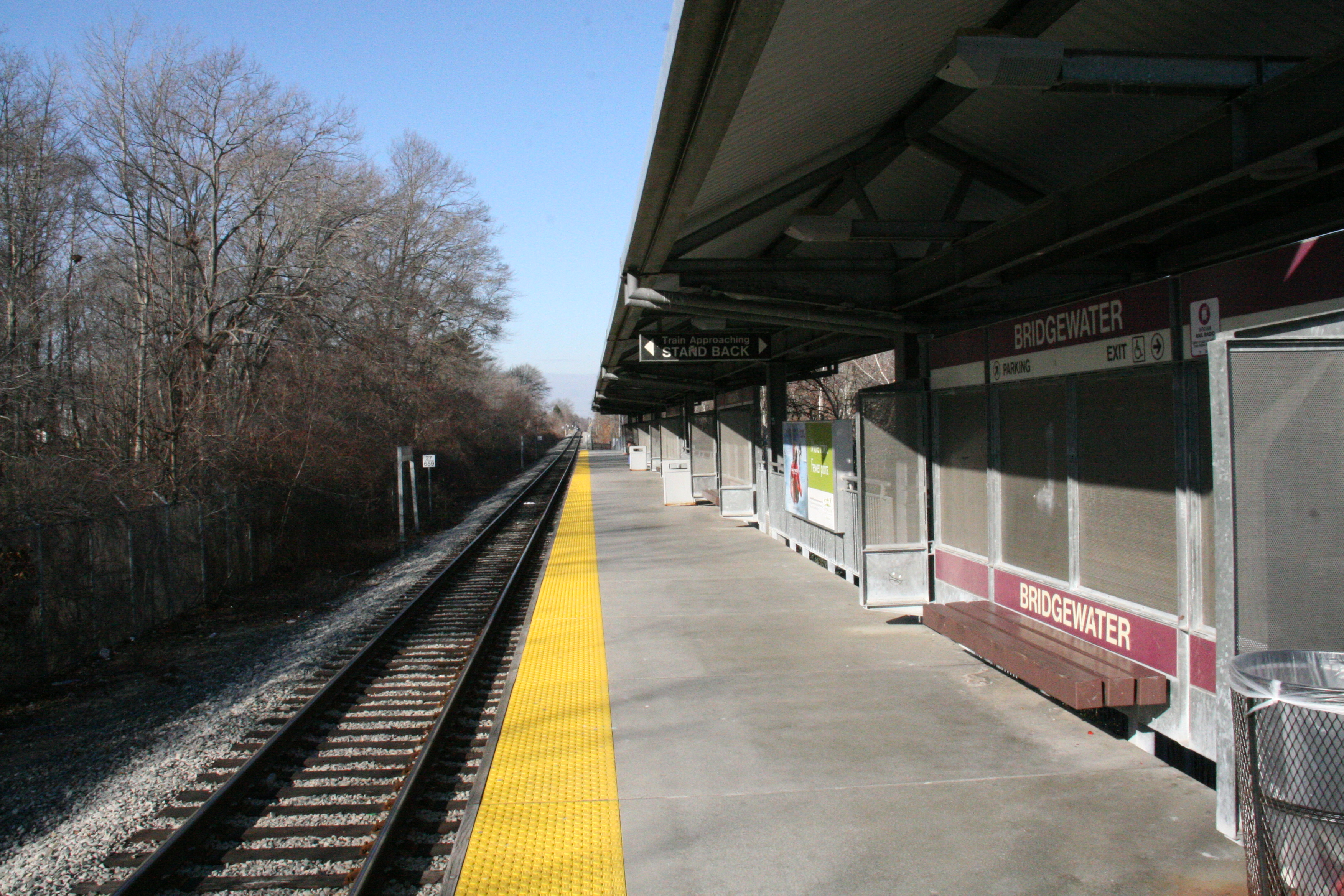 MBTA Bridgewater Commuter Rail Station